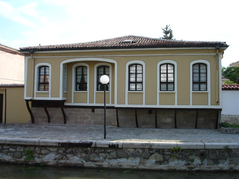 Stanislav Dospevski's house in Pazardzhik